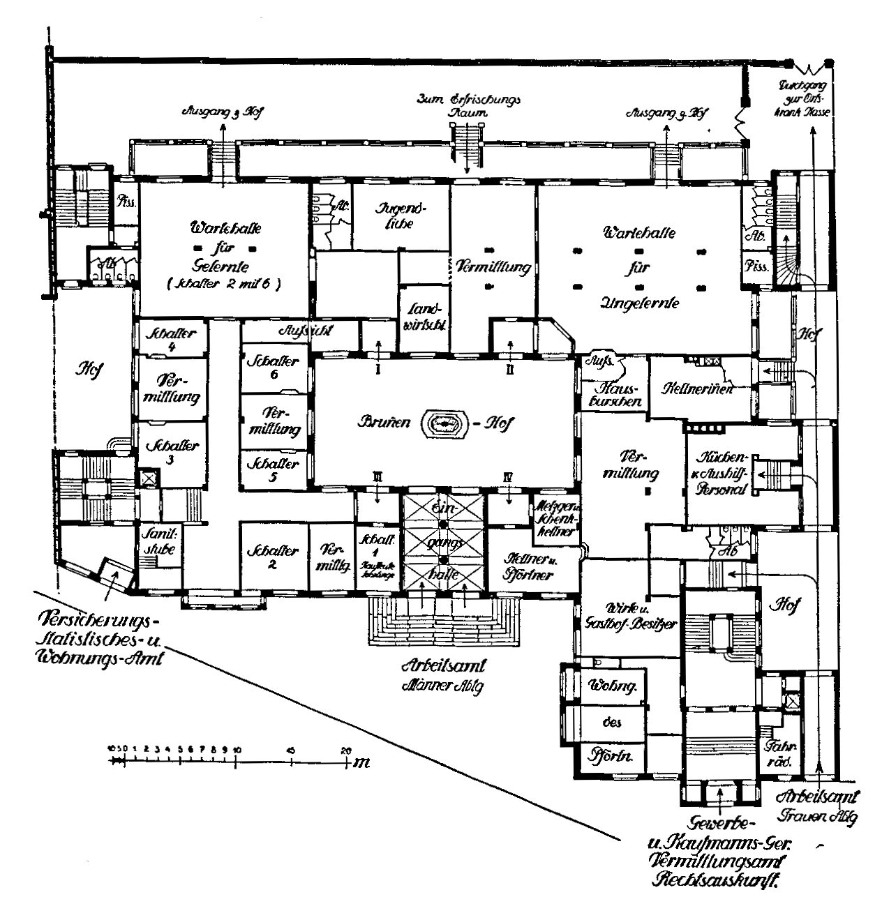 floor plan of Thalkirchner Strasse 56, Munich, Germany